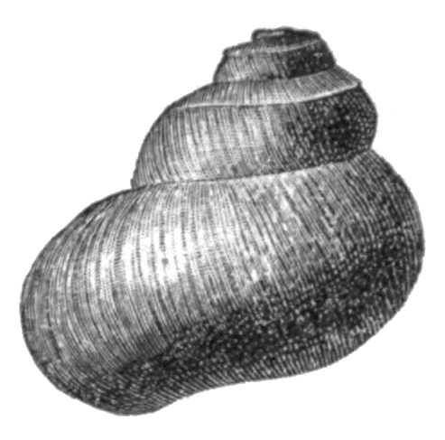 Drawing of the lateral abapertural view of the shell of Valvata utahensis